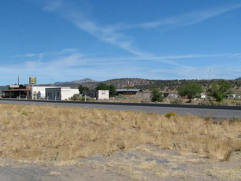 Photograph of the unincorporated town of Hampton (or Hampton Station) in eastern Oregon